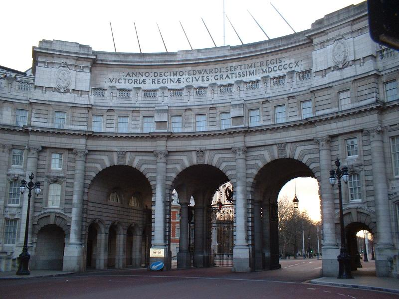 Admiralty Arch, London. Taken by C Ford. 7th March 04.